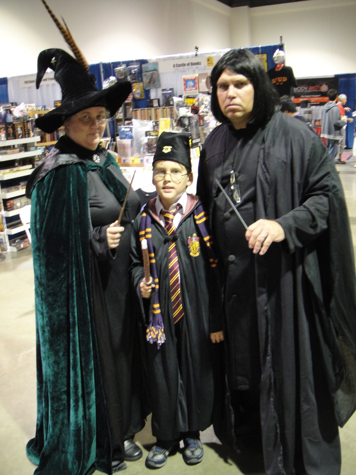 Professor McGonagall, Harry Potter, Severus Snape